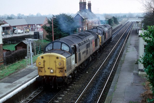 Trimley railway station Two locomotives are seen returning from Felixstowe to Ipswich after working a container train into the port of Felixstowe.